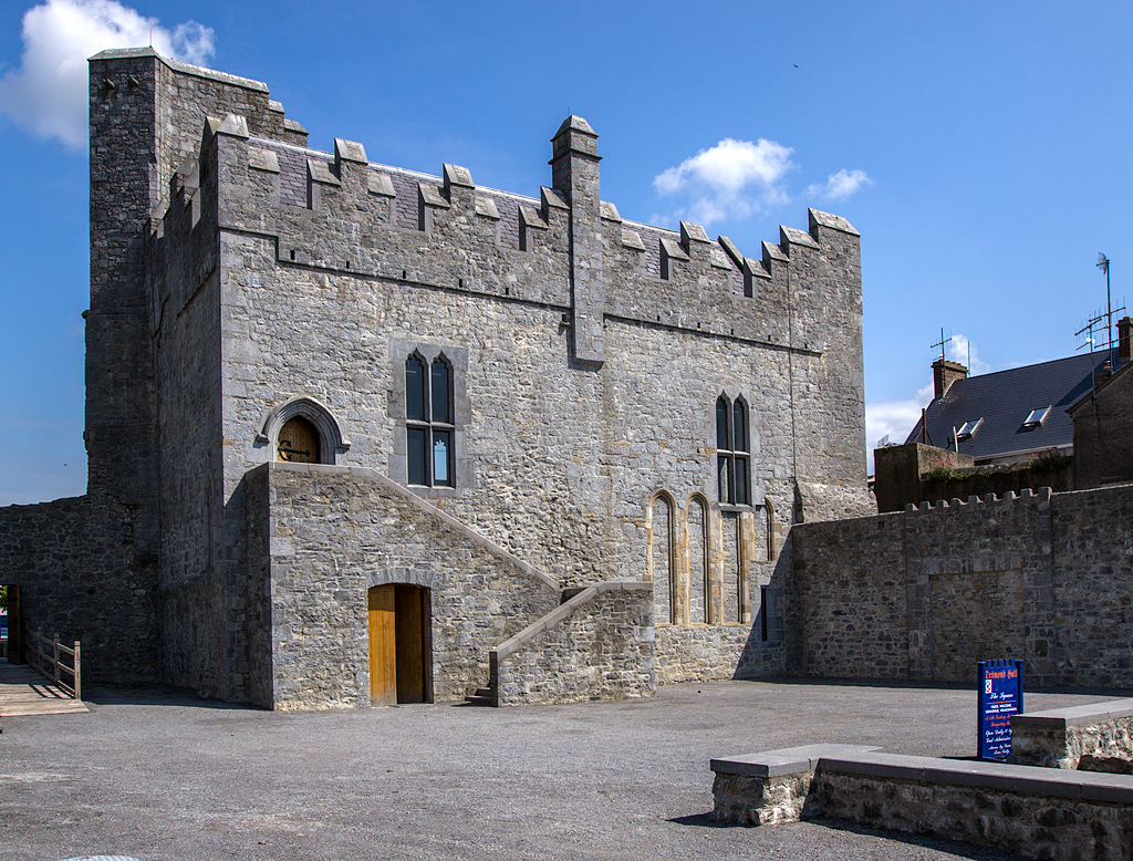 Castles of Munster: Desmond Hall (Castle Banqueting Hall), Newcastle West, Limerick The castle remains at Newcastle West survive as separate entities. This is Desmond Hall that was created from a 13c chapel, and used for banquets and entertainment. It comprises a lower vaulted chamber and an upper hall. It underwent further rebuilding in the 15c. The castle was confiscated after the Desmond Rebellions, and granted in 1591 to Sir William Courtenay. In 1598 it was captured by the "sugan" Earl of Desmond, but was recaptured by the English in 1599. The castle was surrendered in 1643 after a four month siege by the Confederate Catholics, and burnt. This is the first of a second series on the (mostly) hidden castles, tower houses, and fortified houses of Munster that I began in 2007 with castles in Co. Cork, and resumed this year in June 2009 to also include Kerry, Limerick, Tipperary, and Waterford (just to be awkward, some from Kilkenny in Leinster are also included!). As most of these buildings are on private land, I anticipated that access might be a problem, however due to the exceptional generosity and helpfulness of all the tenants and landowners I met, this was never an issue. Permission to photograph on private land was always sought before entering, and without exception, was always granted. Two books "The Castles of South Munster" and "The Castles of North Munster" by Mike Salter are the two main sources used for the historical and architectural details.